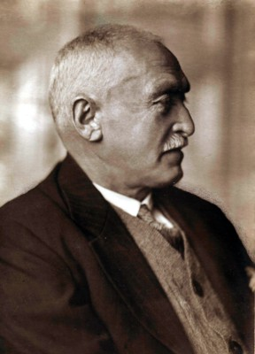 Paul Adolf Grunau